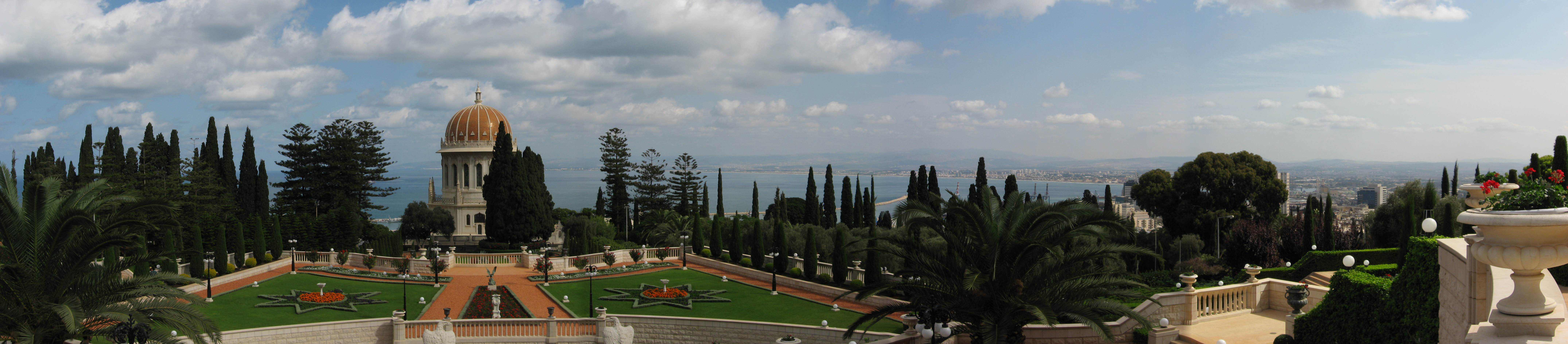 A panoramic view of the Shrine of the Báb and the Bahai gardens